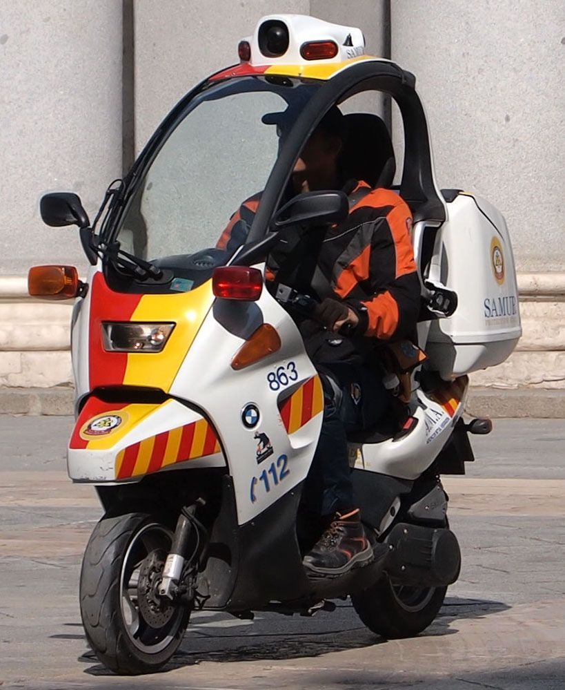 Two-wheeler vehicle of SAMUR emergency system in Madrid.